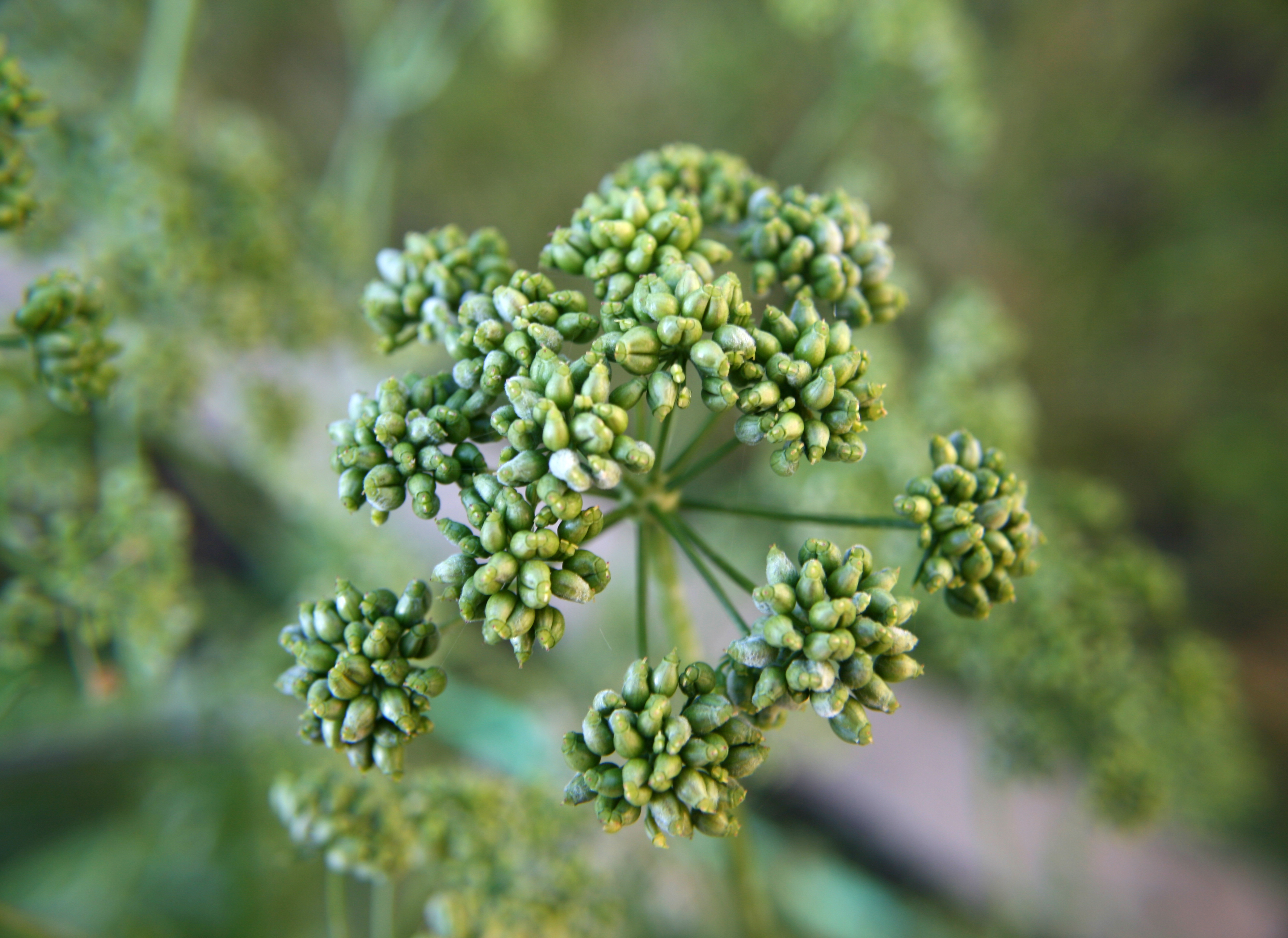 Parsley (Petroselinum crispum); this plant is grown for seeds and is just a year old; hence has no blossoms as parsley is a biennial plant.